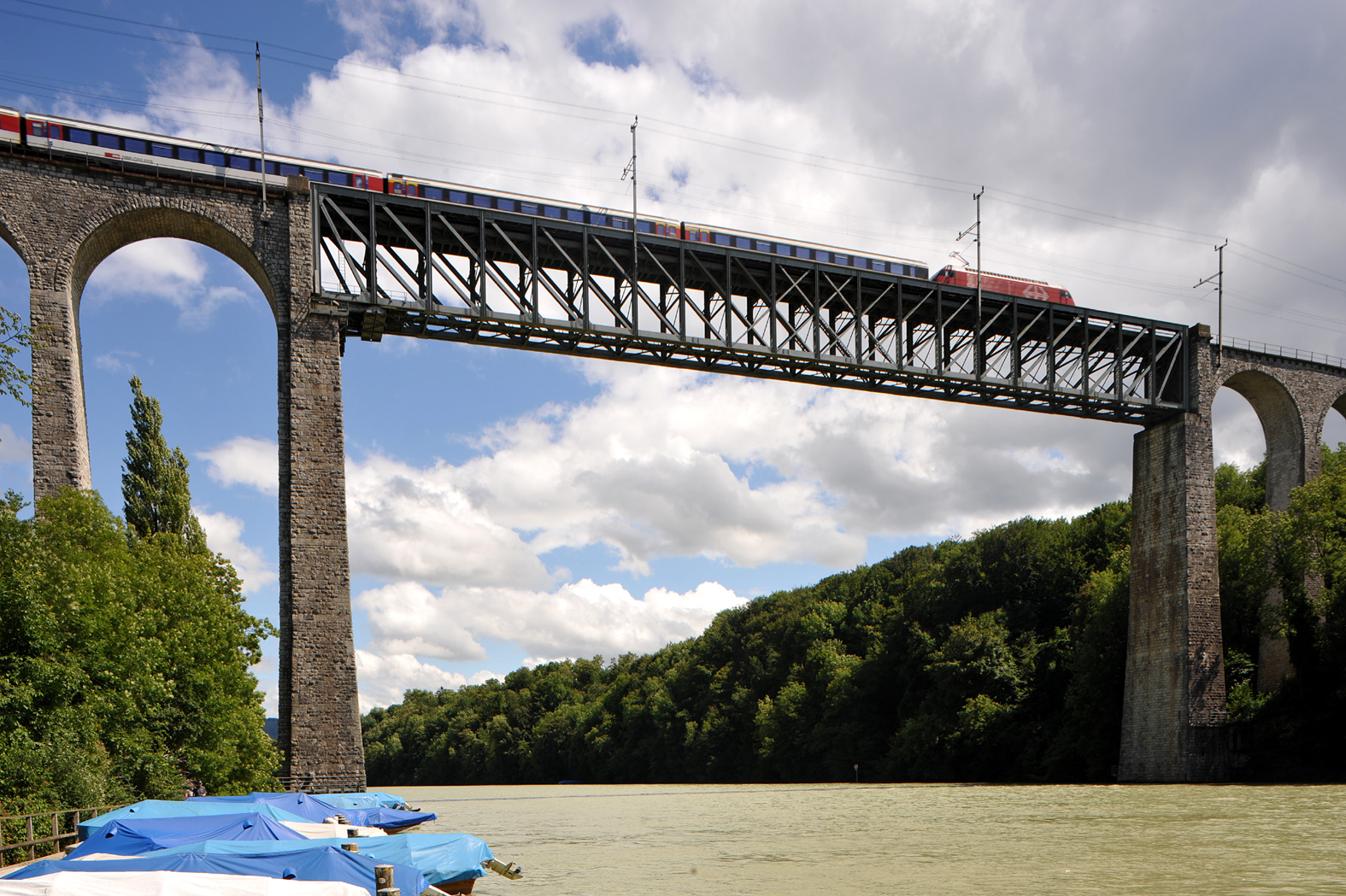 Railway bridge over river Rhine in Eglisau, view from northwest; Zurich, Switzerland.